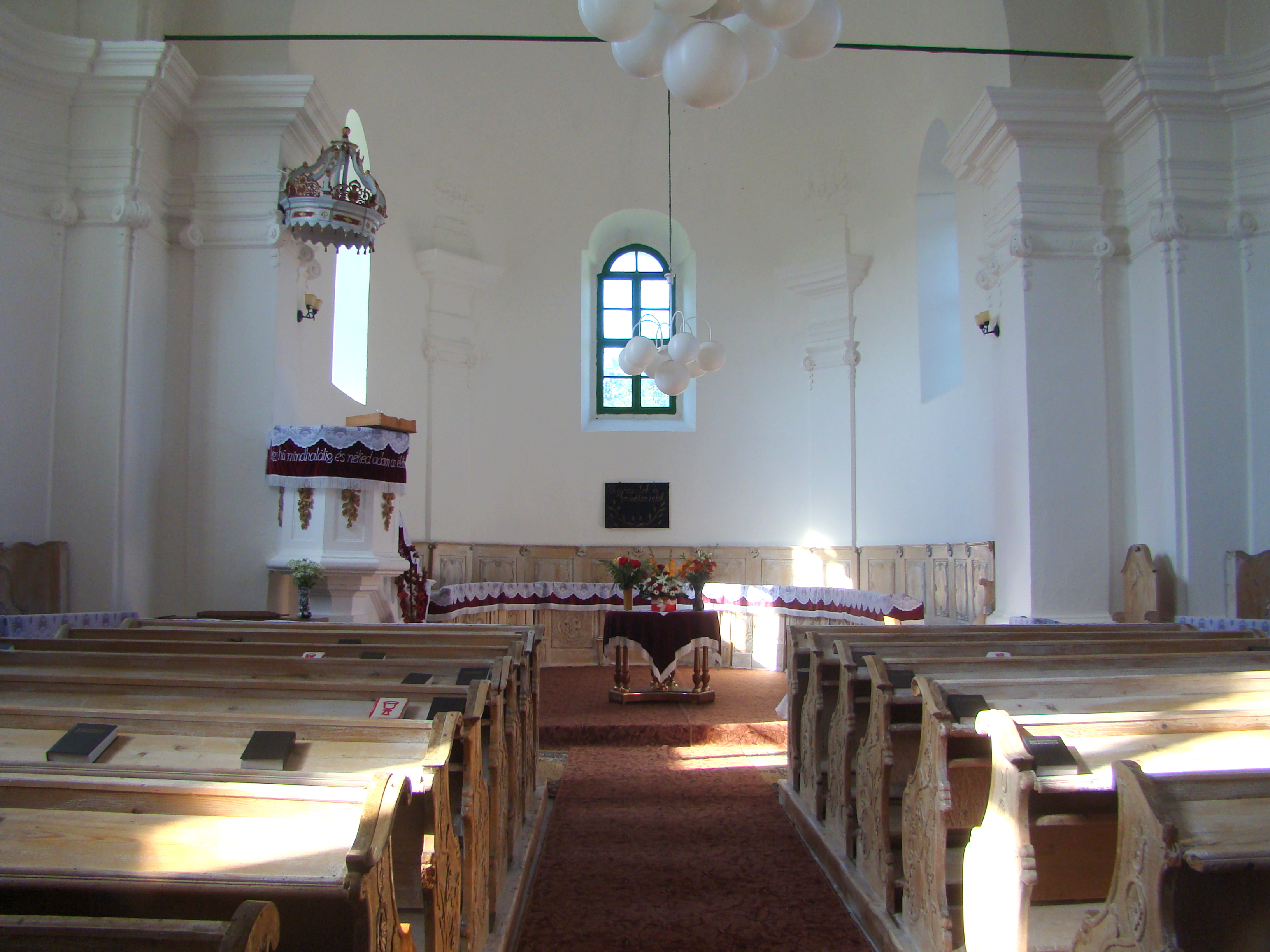 Reformed church in Șieu, Bistrița-Năsăud county, Romania